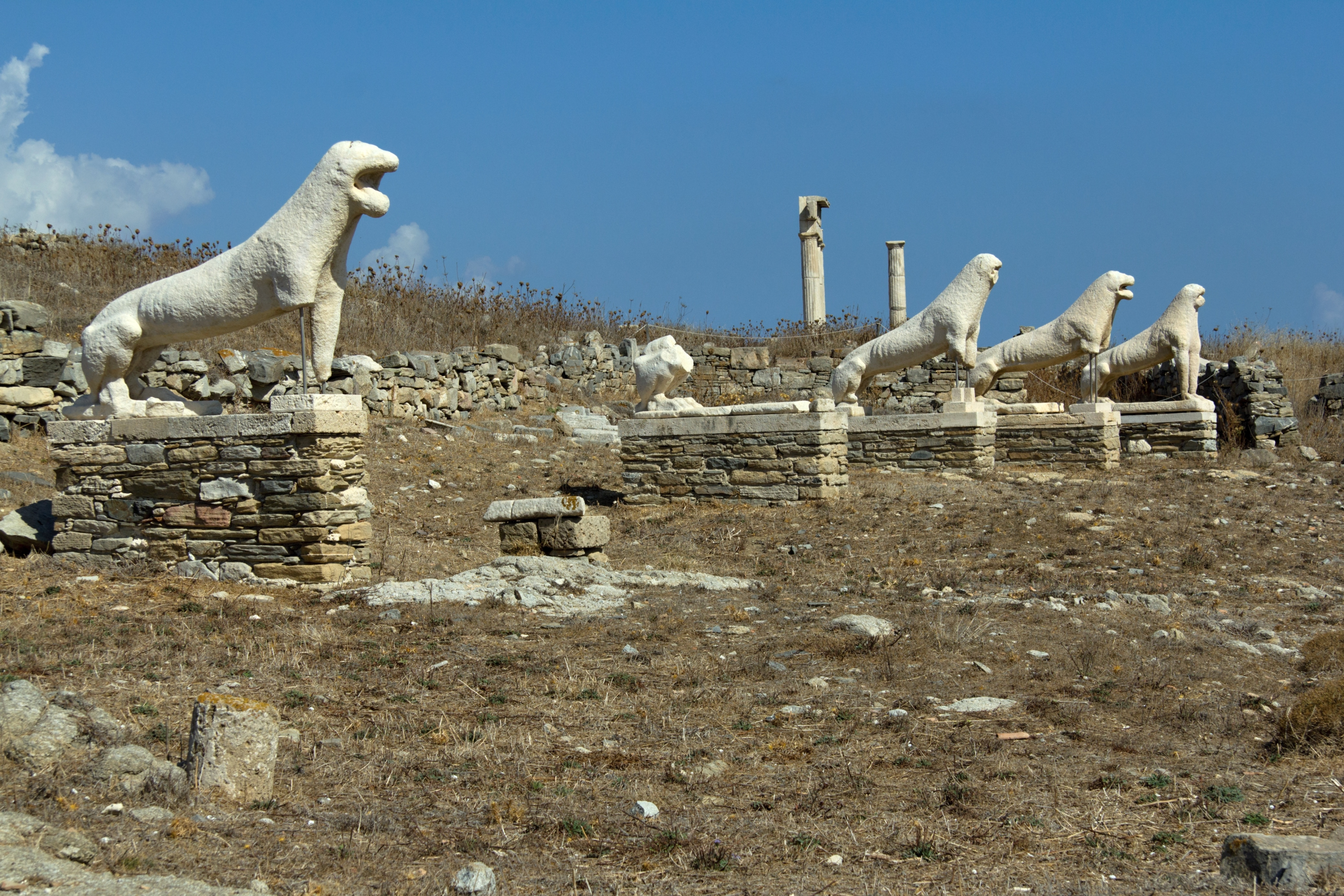 Lion alley at Delos, naxian work, 620 to 600 BC. (Originals are in the museum.)